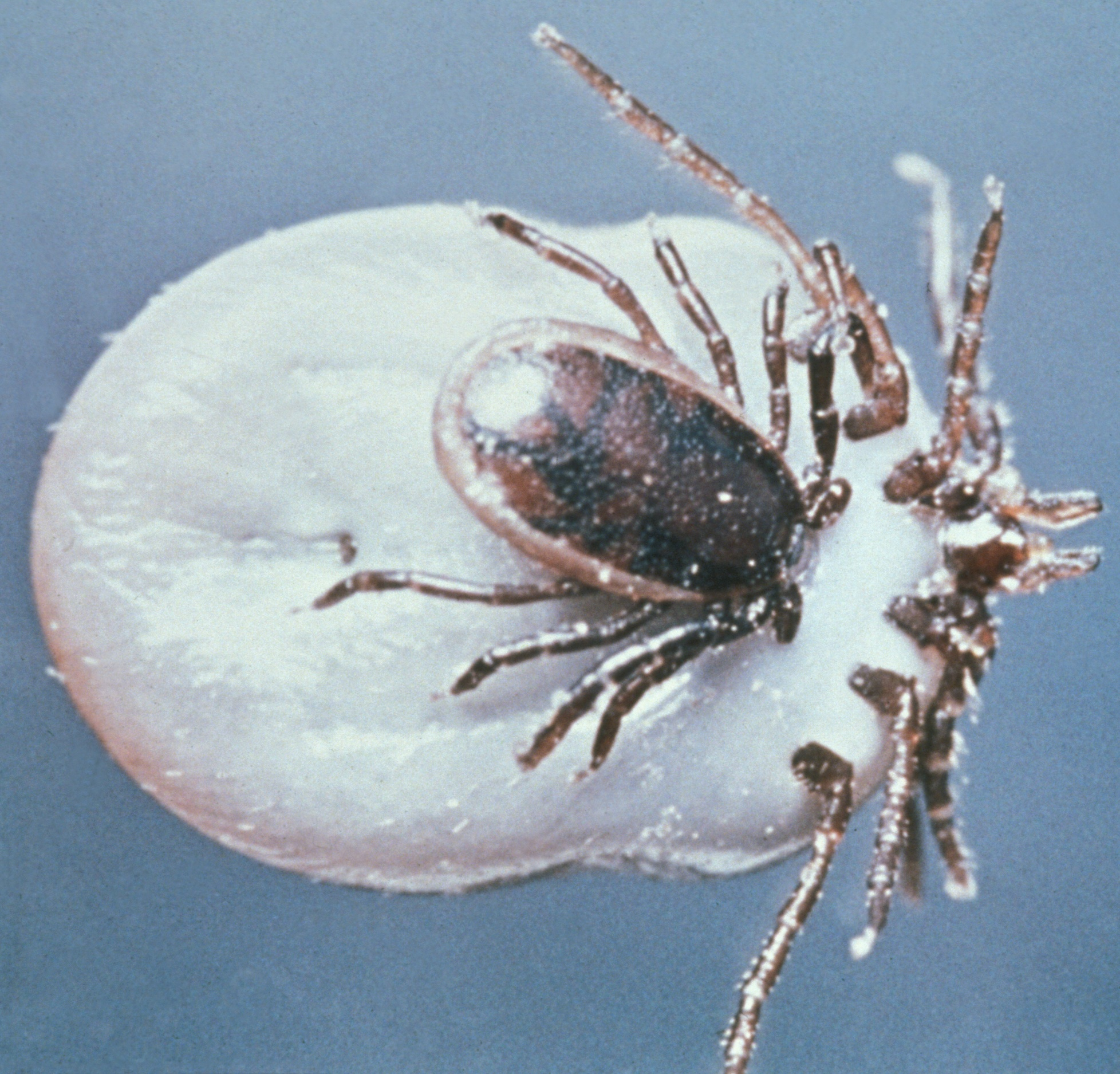 This is a male Ixodes ricinus tick (smaller) shown copulating with a female tick (larger). I. ricinus, the "castor bean" tick, so called because of its resemblance to the castor bean, is a vector for the B. burgdorferi spirochete, the cause of Lyme disease, and is commonly found on farm animals, and deer who are the natural host.